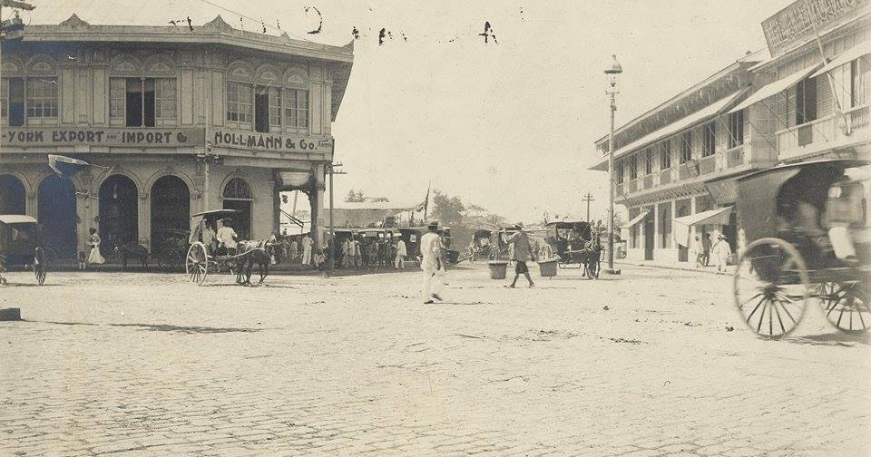 Old Plaza Moraga Philippines